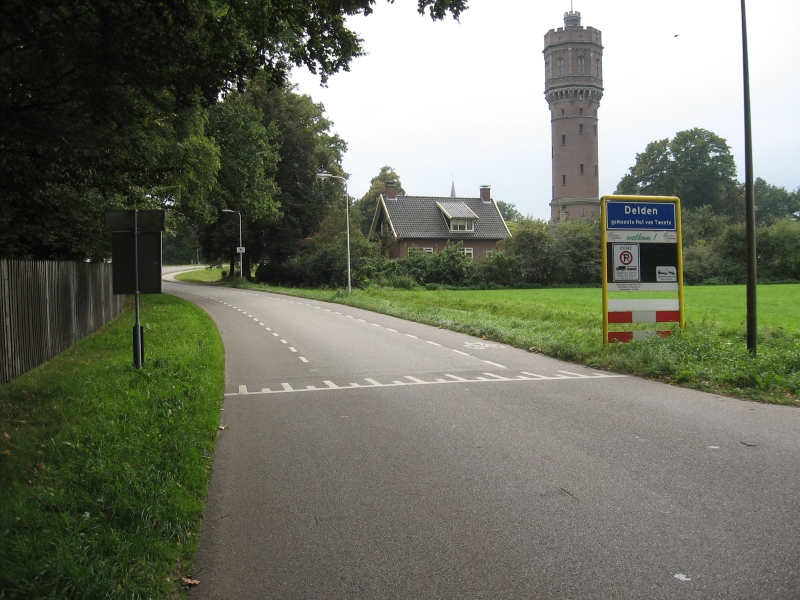 Dutch Provincial Road 742 near Delden